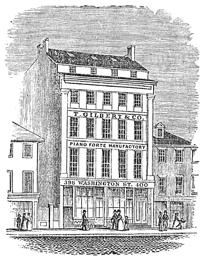 "Patent Aeolian Piano Forte Manufactory" T. Gilbert & Co. advertisement, 1850